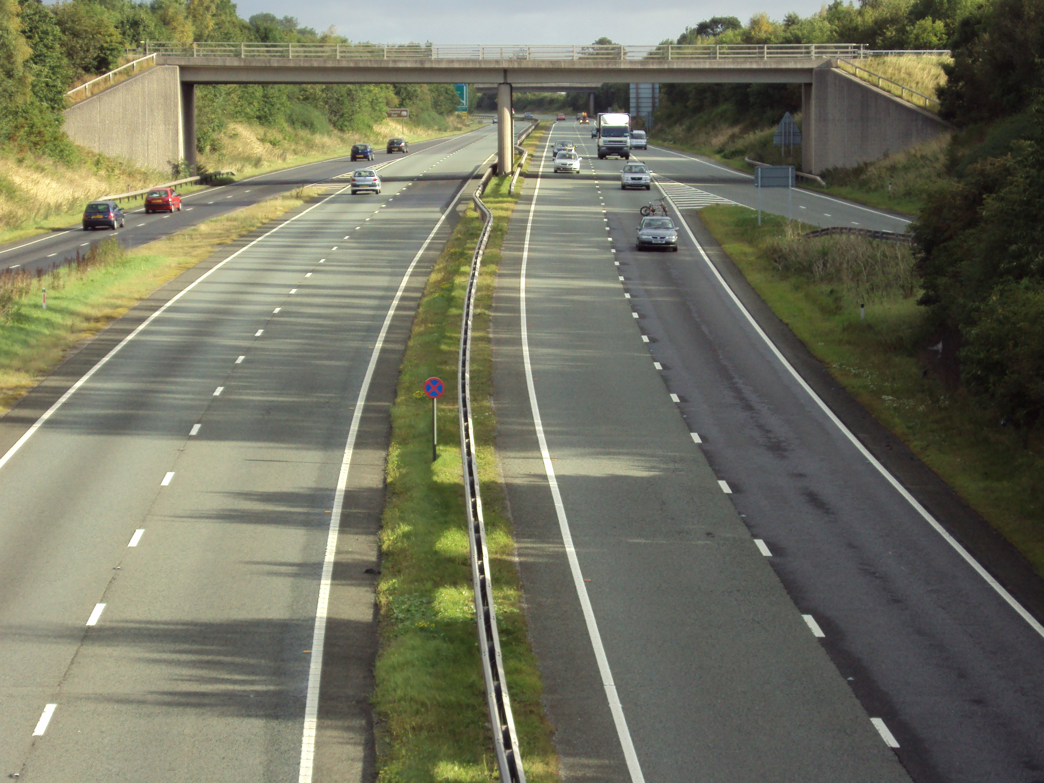 Looking down northwards on the A55 road from its junction with the A51 at Vicar's Cross, Chester, England.